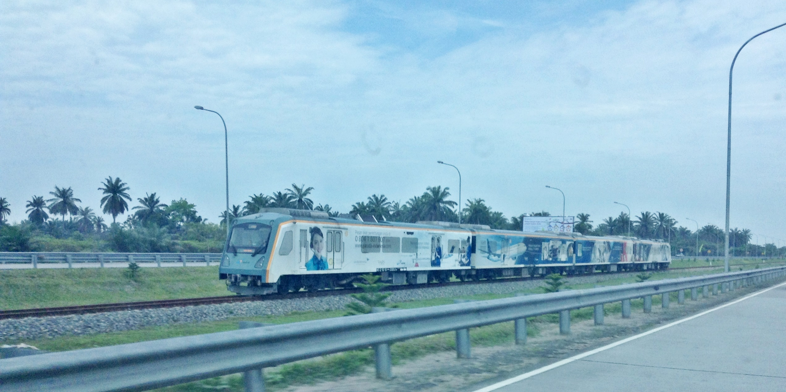 Kualanamu ARS train passing near the airport